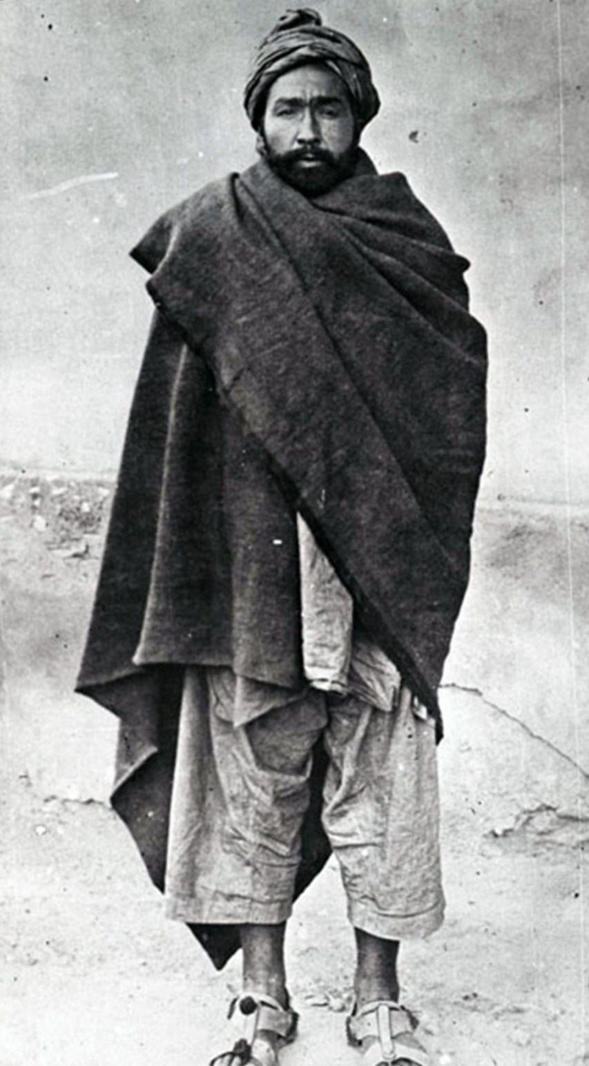 Habibullah Kalakani (a.k.a. Bacha-i Saqqao - son of water carrier), the Tajik bandit who seized Kabul from the faltering hands of Afghan King Amanullah Khan in January 1929. He was ousted in the same year by Nadir Khan and executed by hanging in early November 1929. [1]